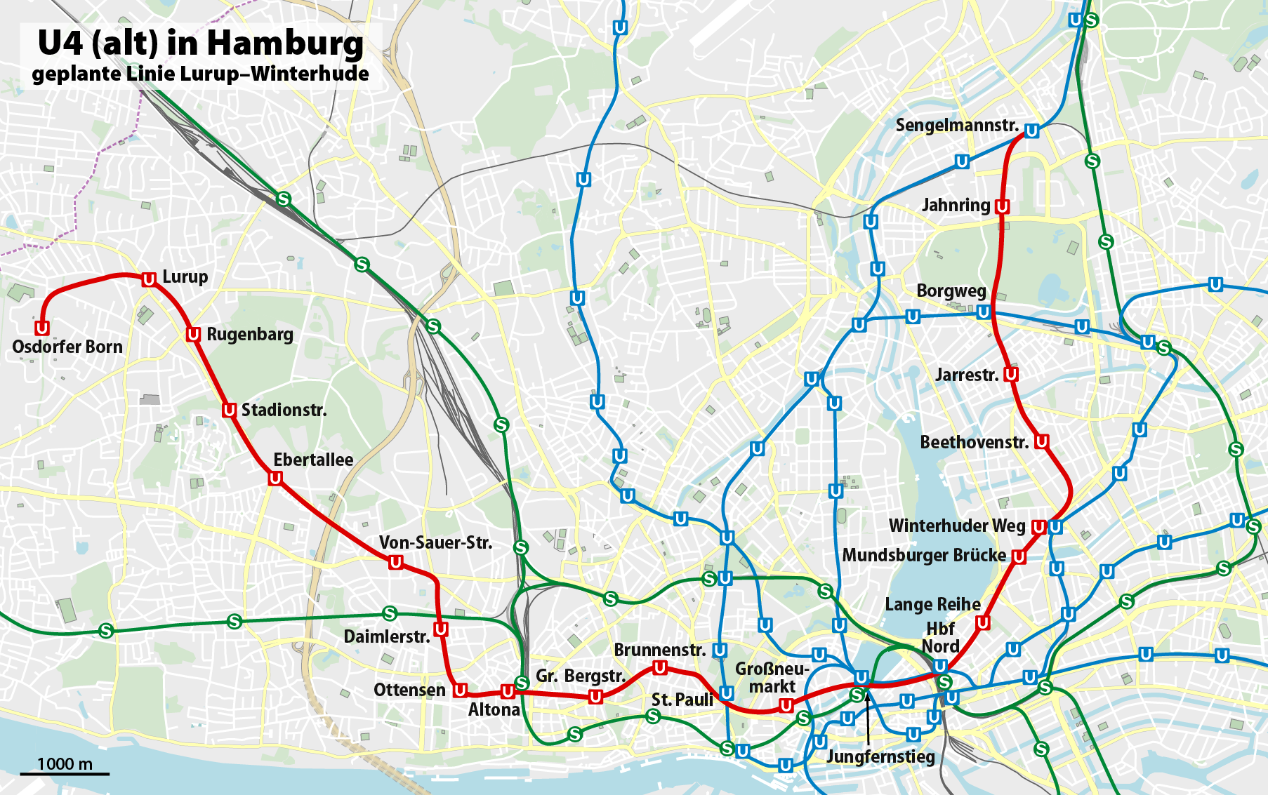 Map of primarily planned line U4 of Hamburg U-Bahn This map may be incomplete, and may contain errors. Don't rely solely on it for navigation.